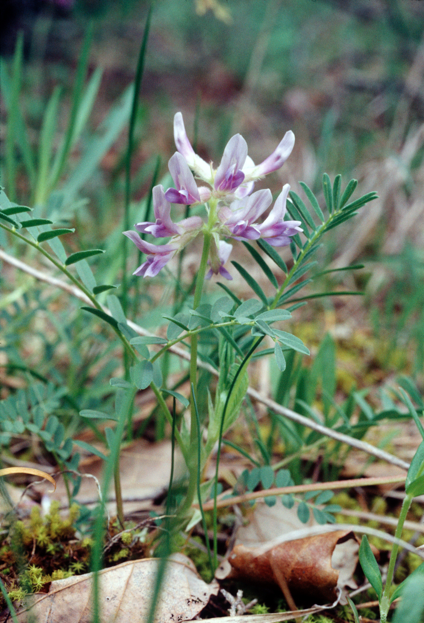 Pyne's Ground Plum (Astragalus bibullatus) in Rutherford County, Tennessee